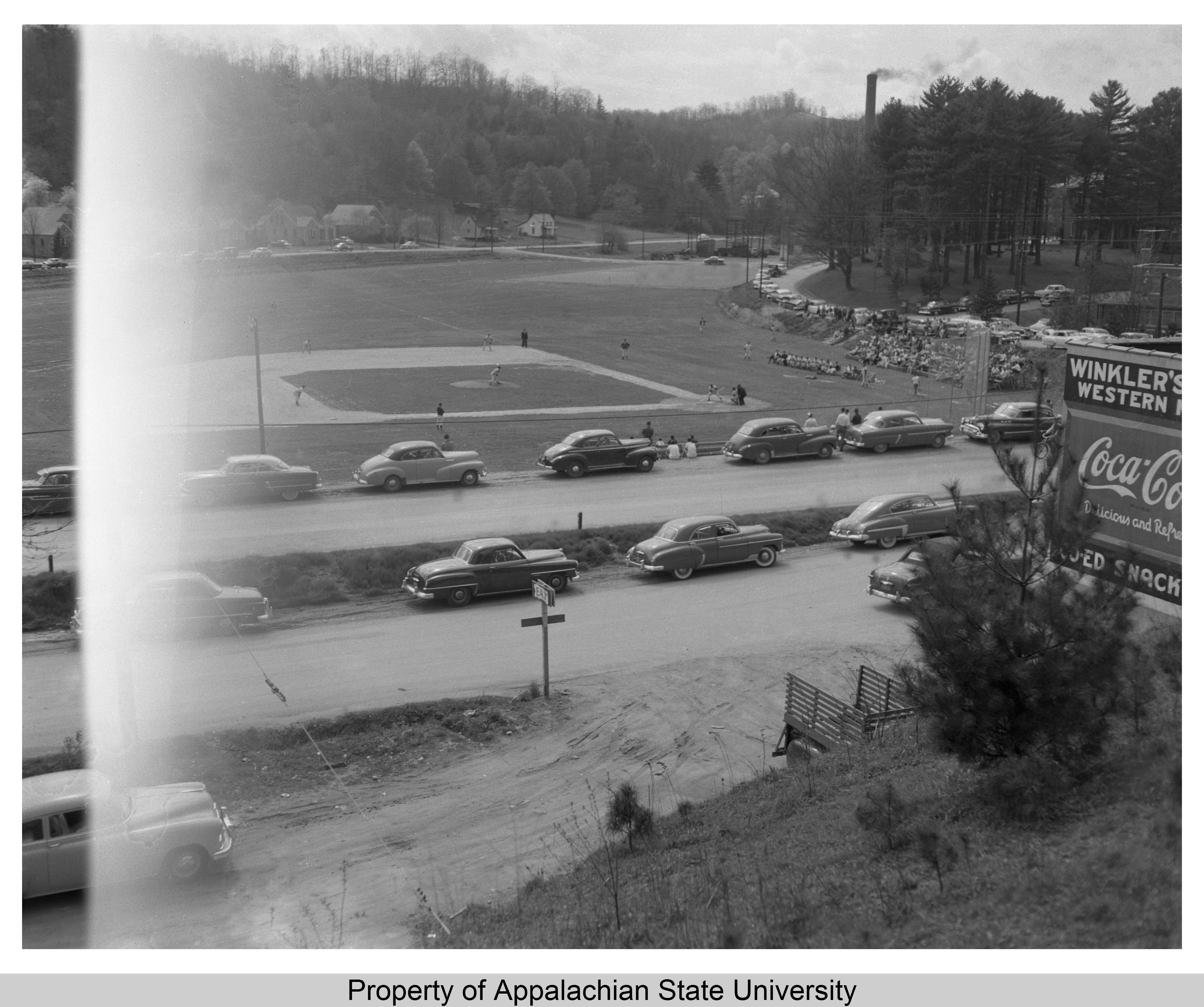 The baseball team playing at Red Lackey Field, located approximately where Holmes Convocation Center, now stands. Fans are seated on bleachers to the right, with players positioned on the field and in a line in front of the bleachers. The first Administration Building, then the Home Economics Building, built 1905, can be seen in the clump of trees in the background to the right. The smokestack of the Steam Plant, built 1924, can be seen beyond the trees, as well as the houses on Faculty Street to the left. Cars are parked along the then divided highway US-321.